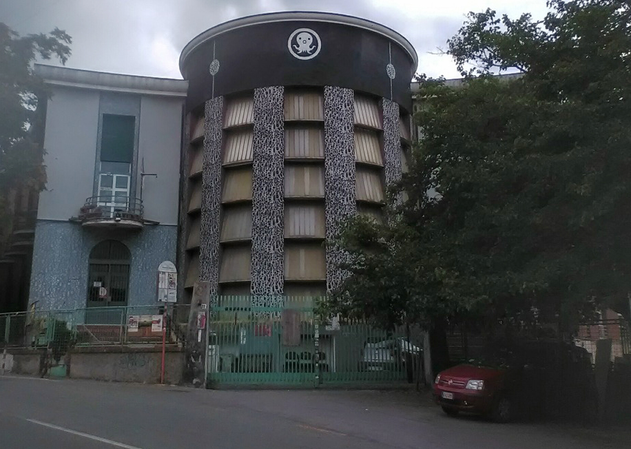 The facade of the LSOA Buridda building in Genoa painted by graffiti artist Opiemme